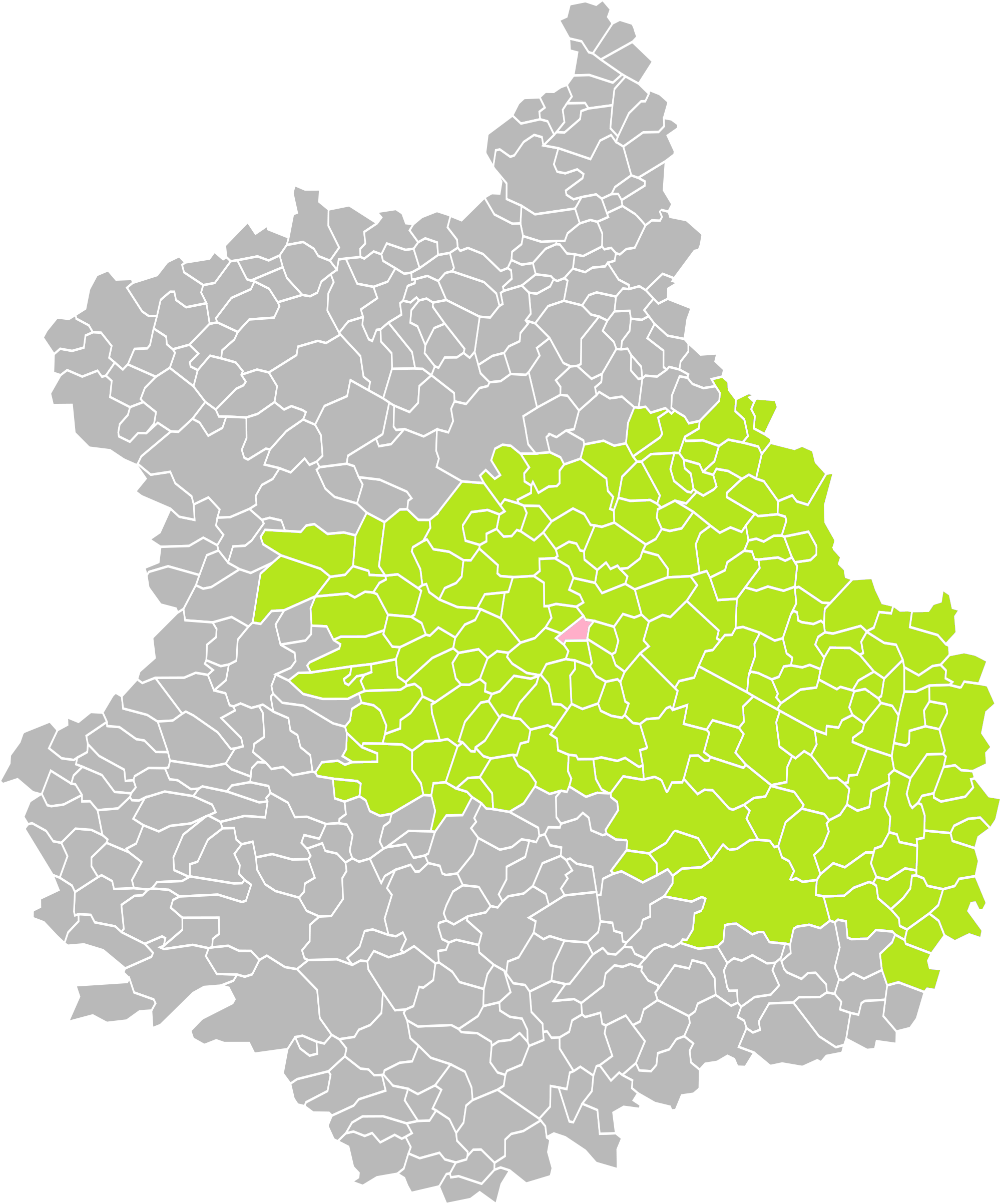 Location of the commune of Luisant in the arrondissement of Chartres (Eure-et-Loir)